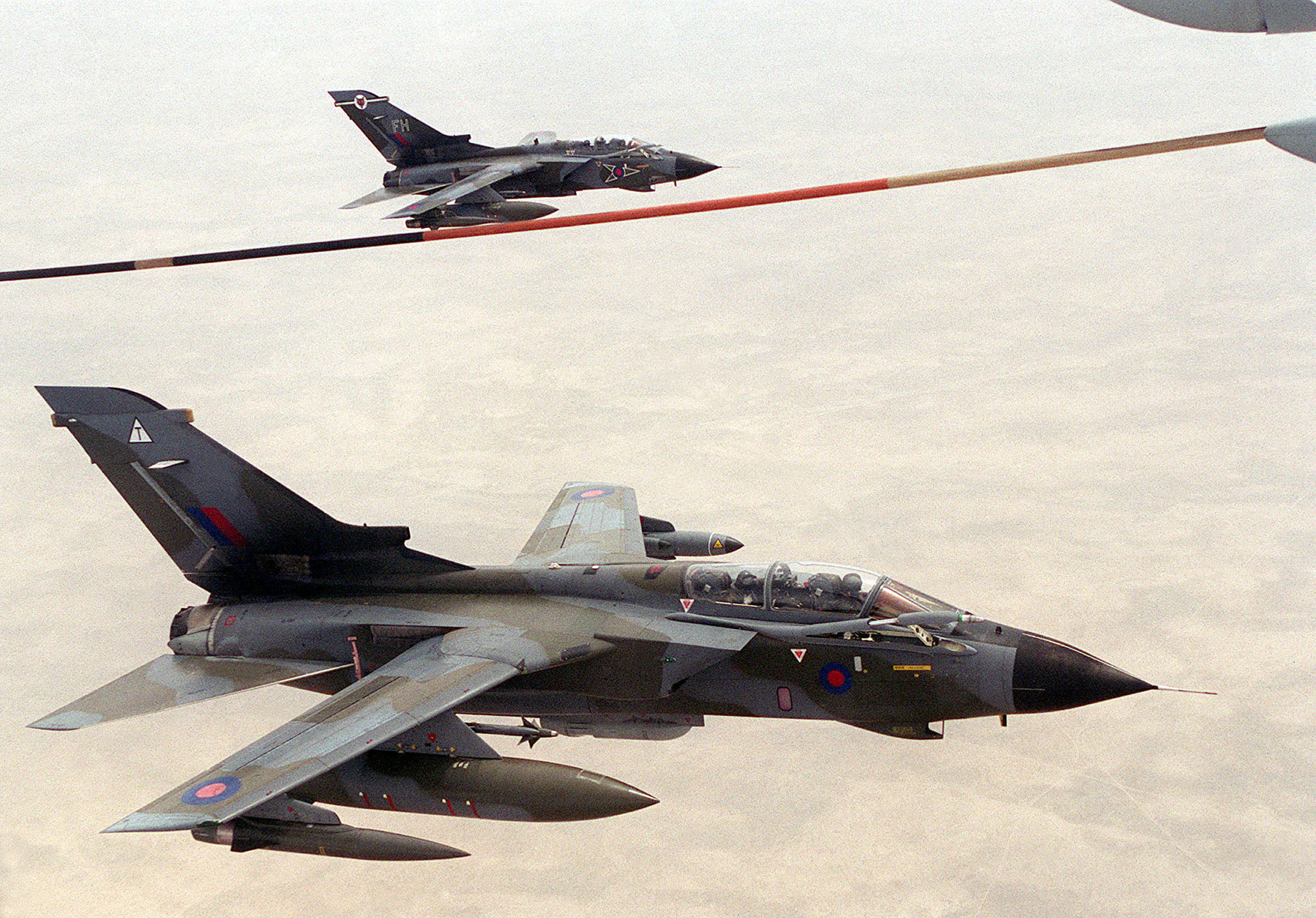 A pair of British Royal Air Force Panavia Tornado's. 1 GR.1A (2(ac)Sqn, in the foreground, and a GR1 (12 Sqn) behind. fly below the fuel hose of a RAF Vickers VC-10 K3 tanker prior to refueling over Kuwait on 20 March 1998.